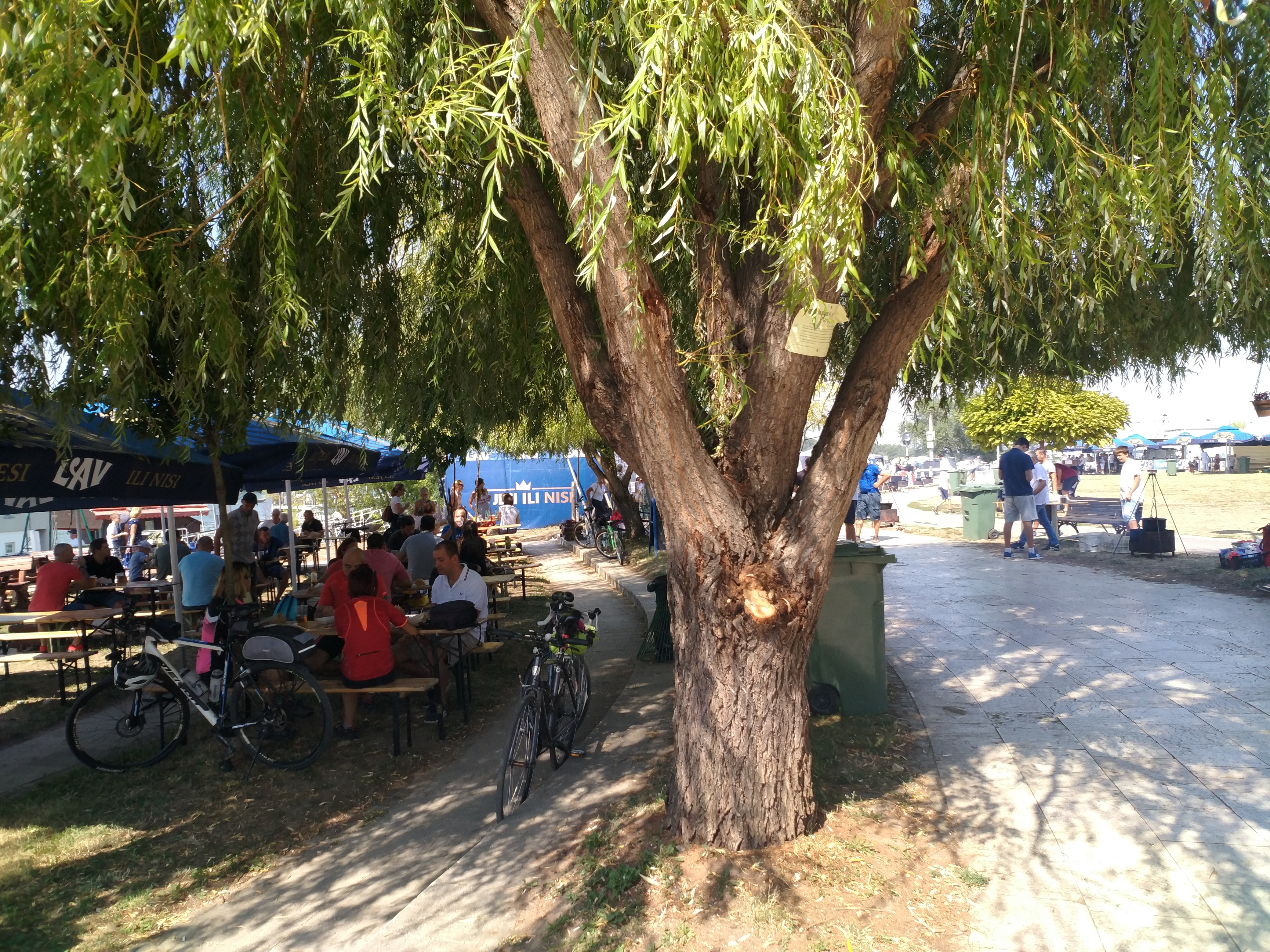 Fish Fest Belgrade, 2017, Serbia Srpski (latinica): Fotografija sa manifestacije Fiš fest u Beogradu 2017. godine, kod Kule Nebojša, Srbija